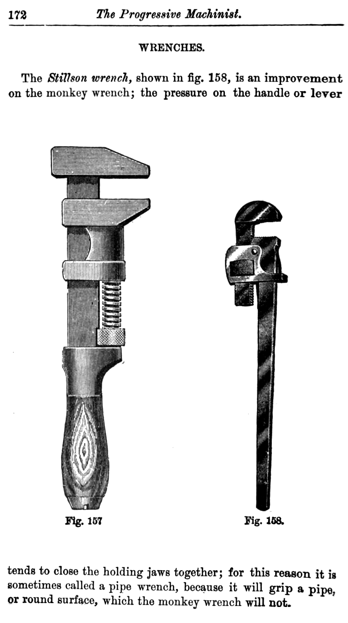 Page from The Progressive Machinist by William Rogers, (1903 T. Audel & Co.) showing a monkey wrench and a Stillson or pipe wrench, and explaining the difference.